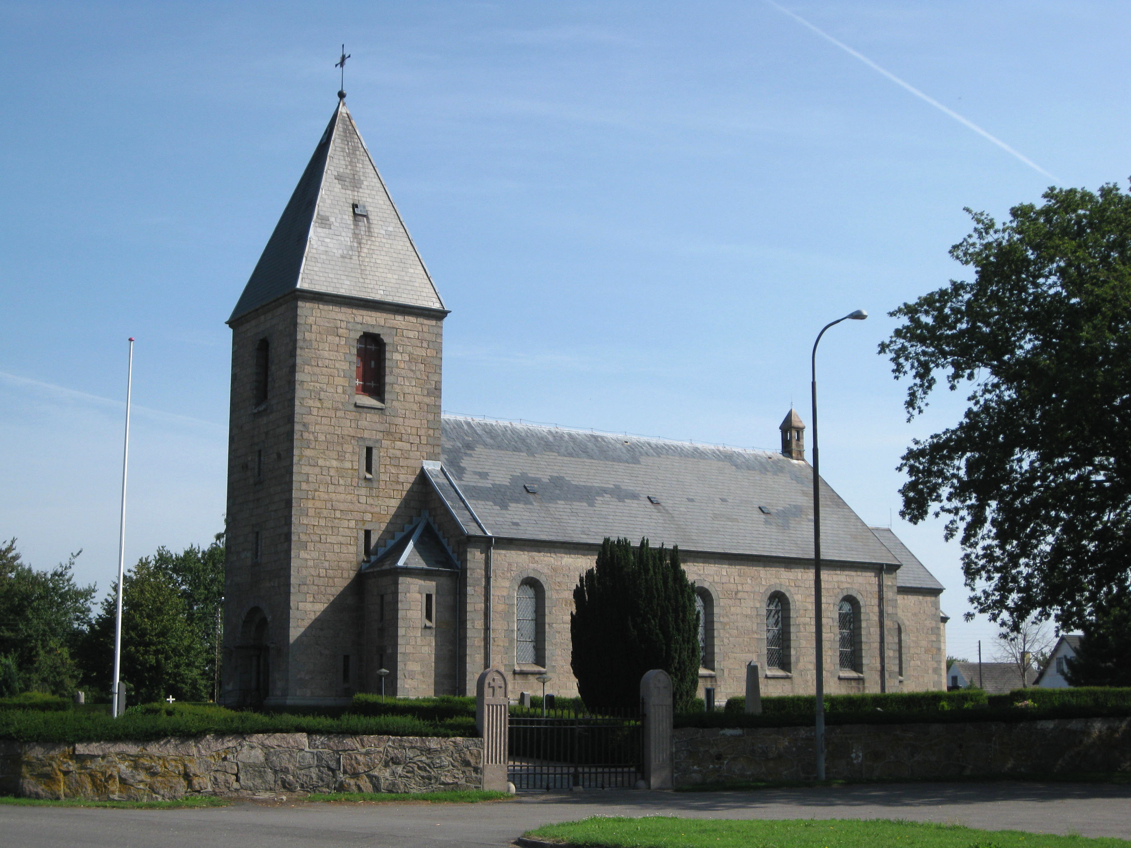 The church "Vestermarie Kirke" in the small town "Vestermarie". The town is located on the island Bornholm in east Denmark.